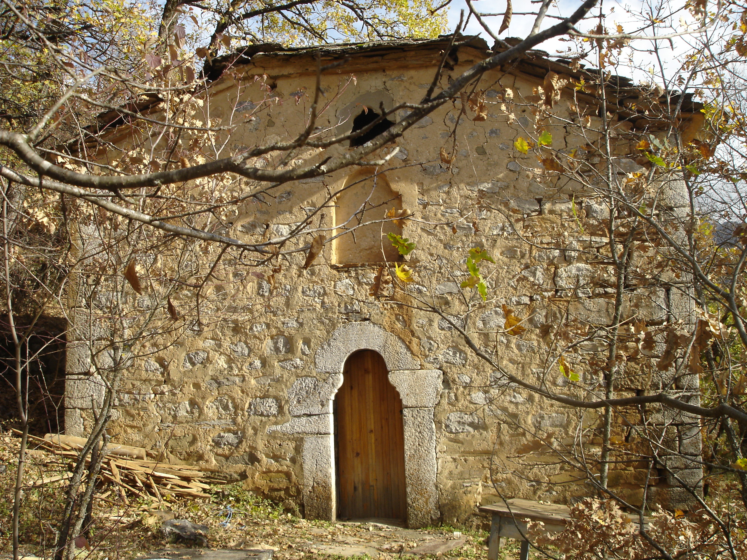 The church of Sv.Atanasij in the village of Rajchica, near Debar, Macedonia